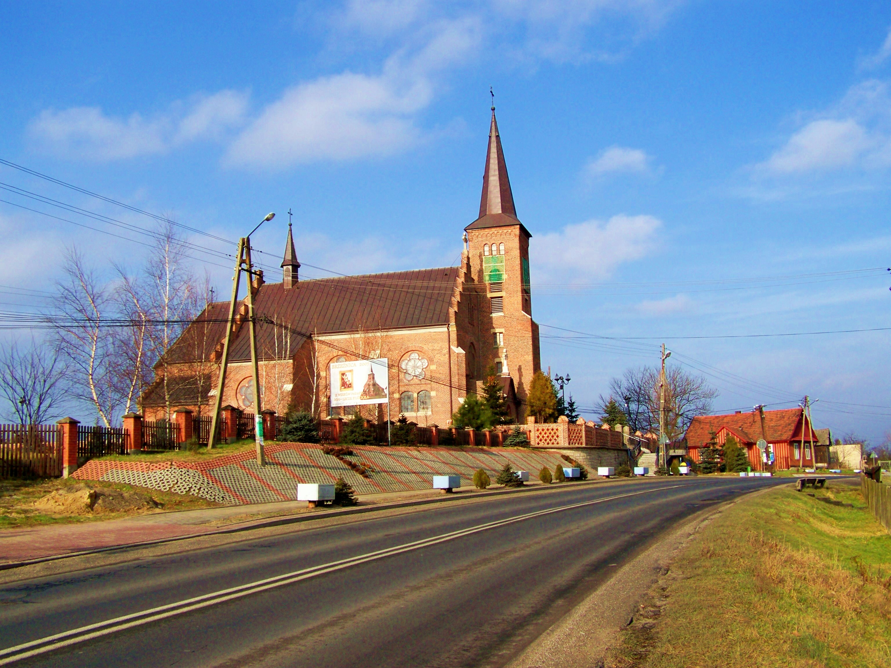 Church in Ostrów, Poland